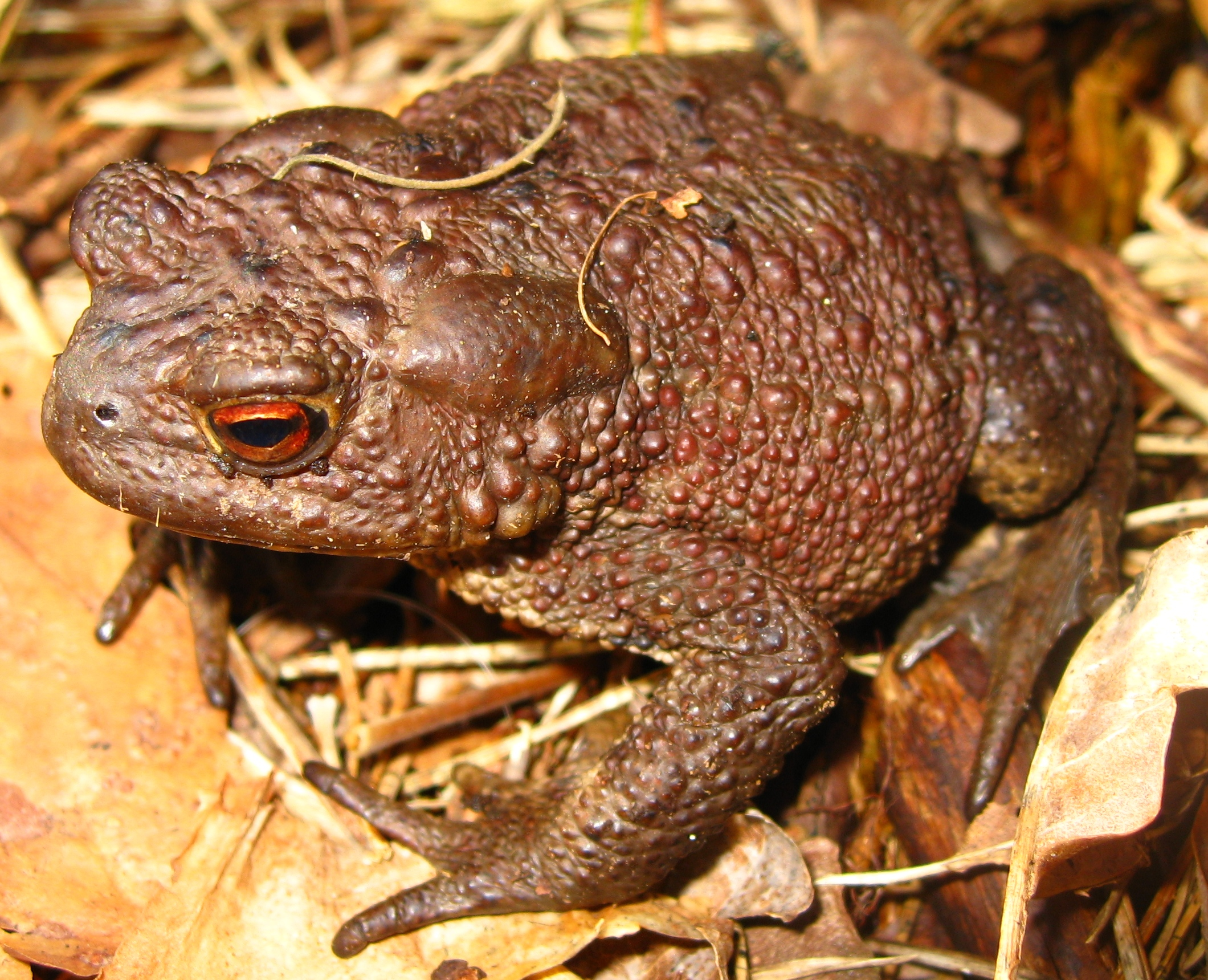 Common Toad (Bufo bufo)